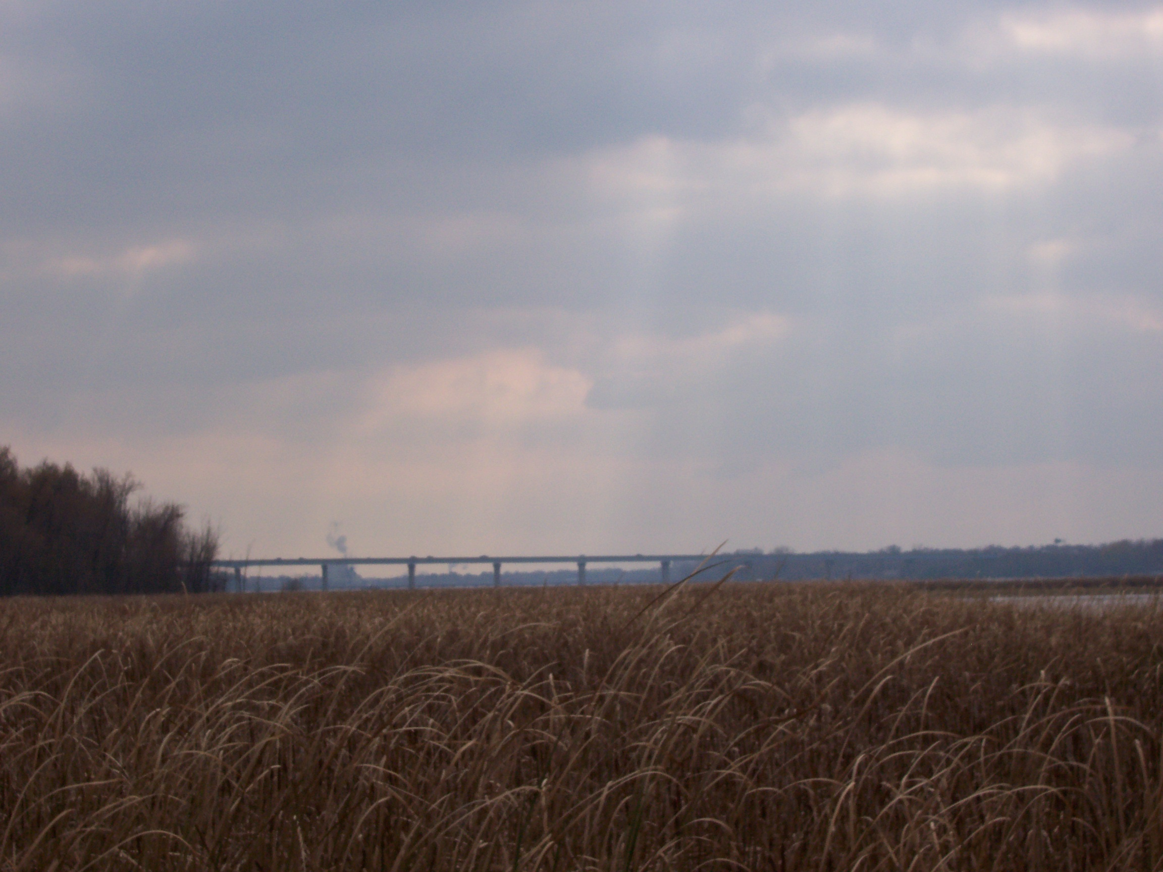 The Roland Kampo bridge on Highway 441 (Wisconsin) over Little Lake Butte des Mortes in metro Appleton, Wisconsin, USA. Taken from the north near an island.